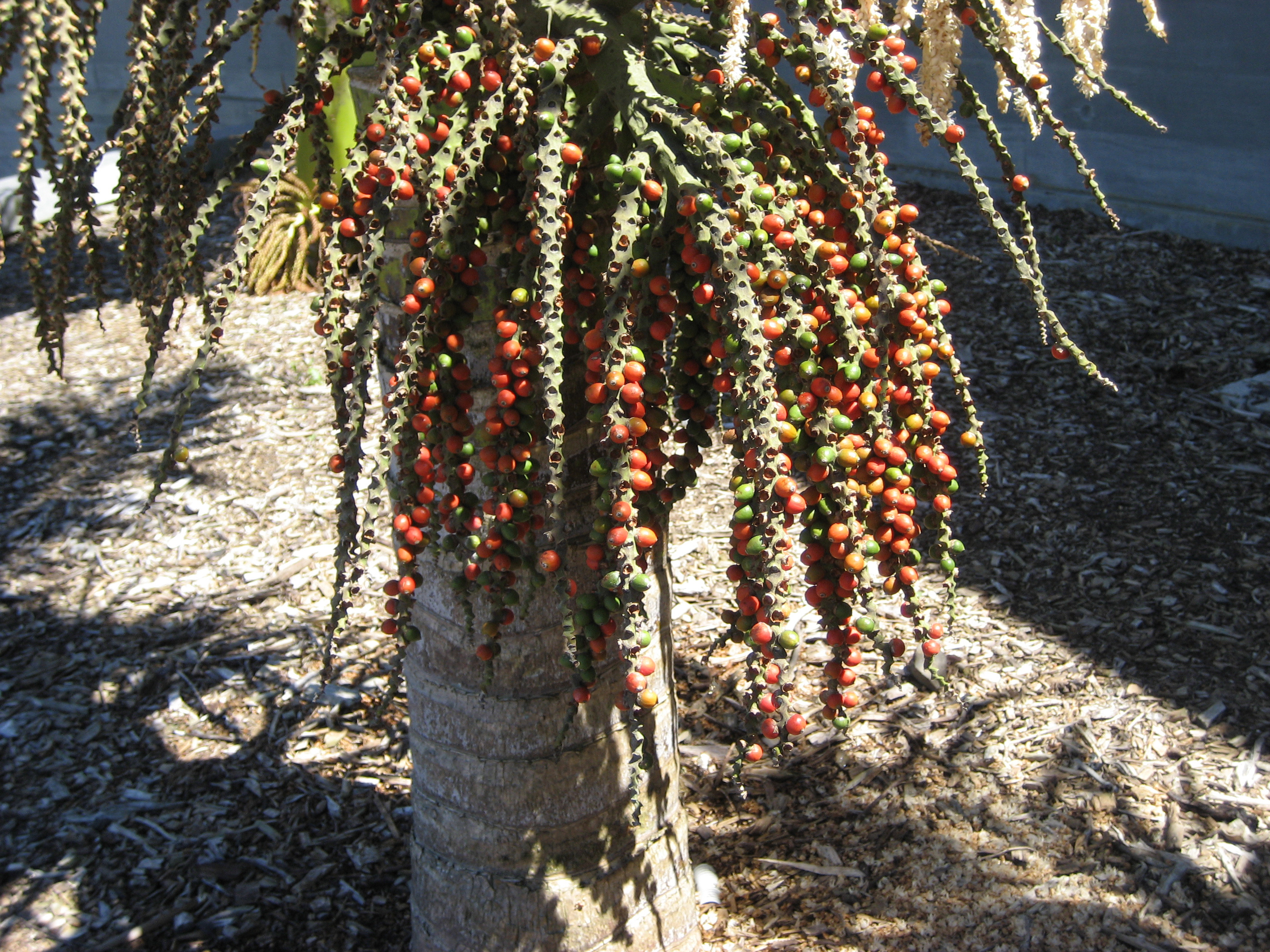 Ripe fruit of Rhopalostylis sapida (Nīkau palm), Auckland, New Zealand